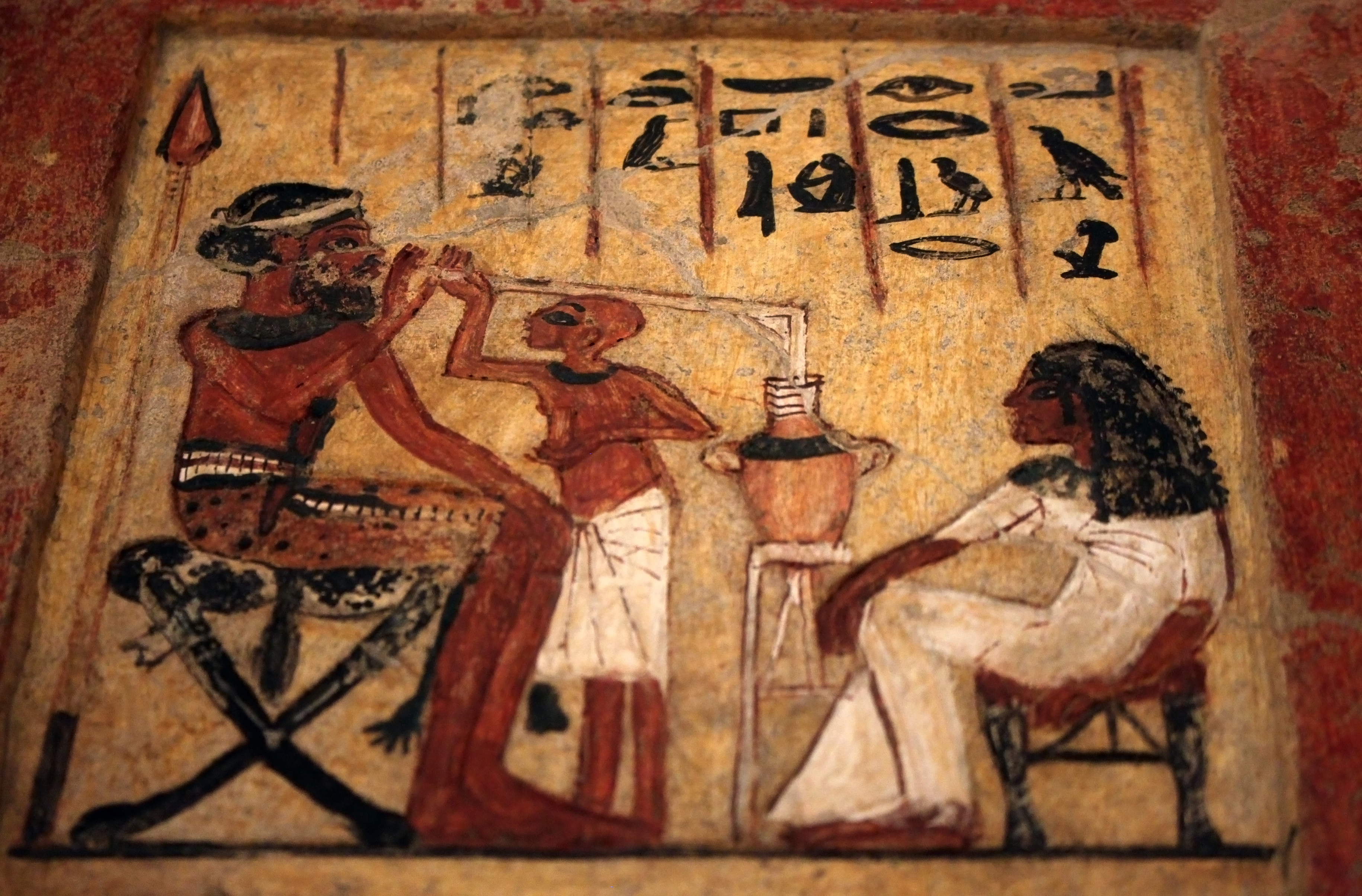 Stela depicting a Syrian mercenary drinking beer. Egyptian New Kingdom, 18th Dynasty, Aménophis IV. Neues Museum, Berlin.